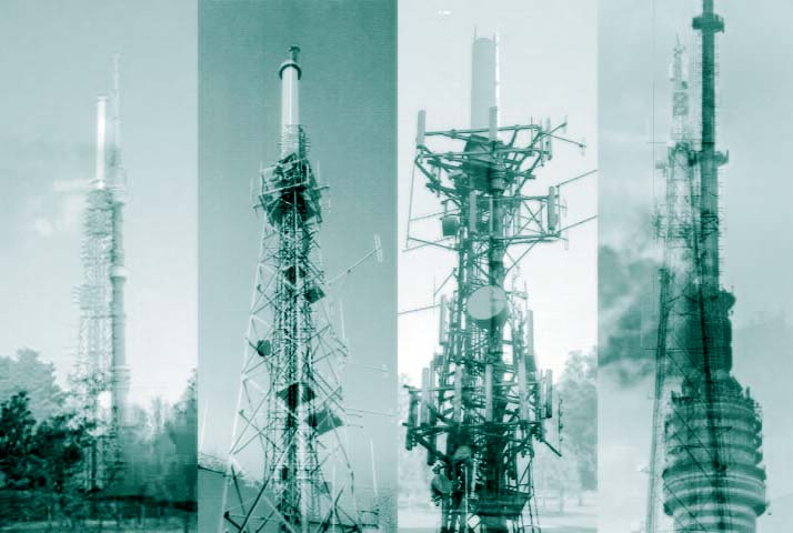 animation for Negativland's 1987 audio track